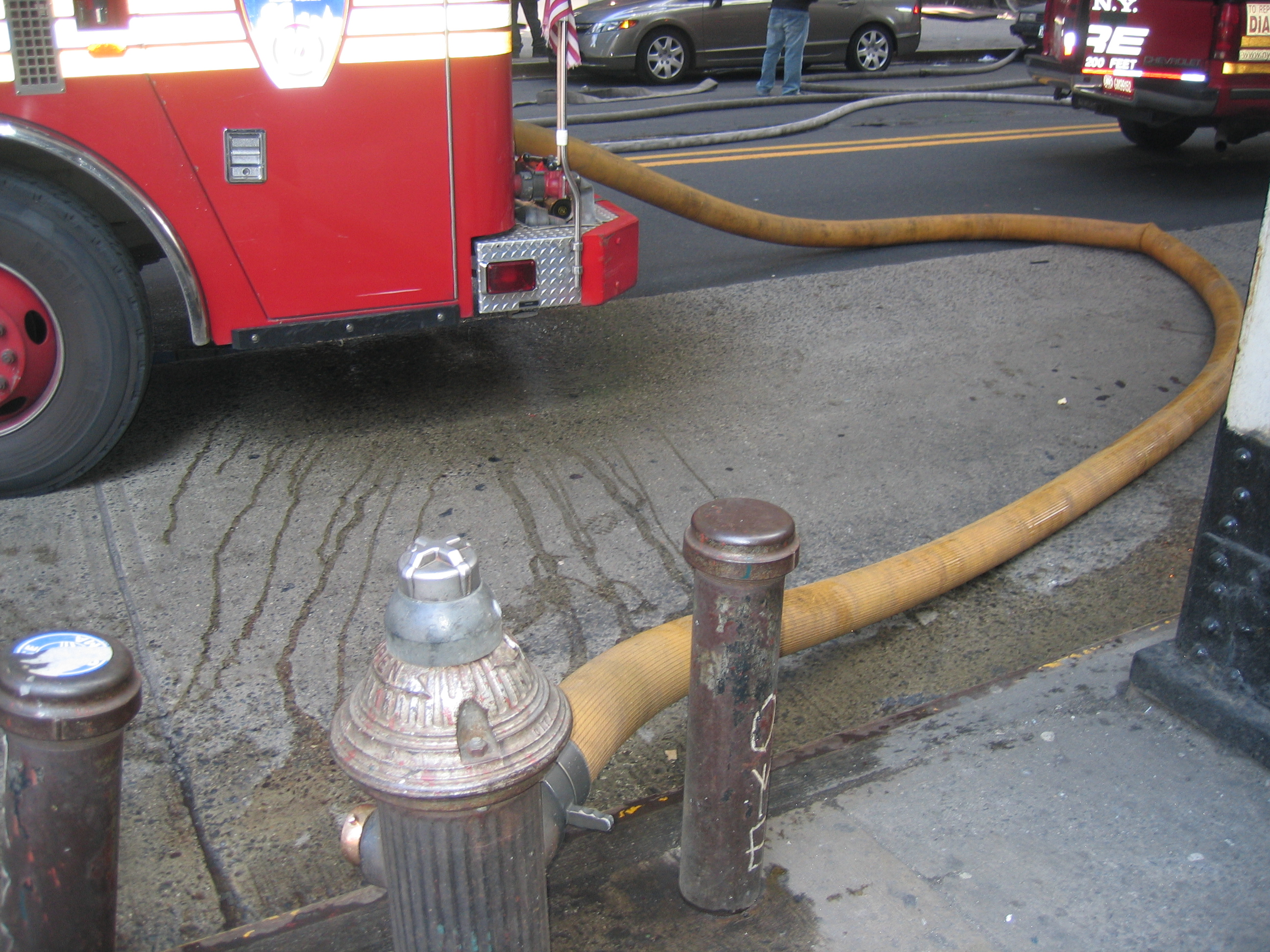 NYC hydrant connected to a pumper truck. Brooklyn, NY 11211.